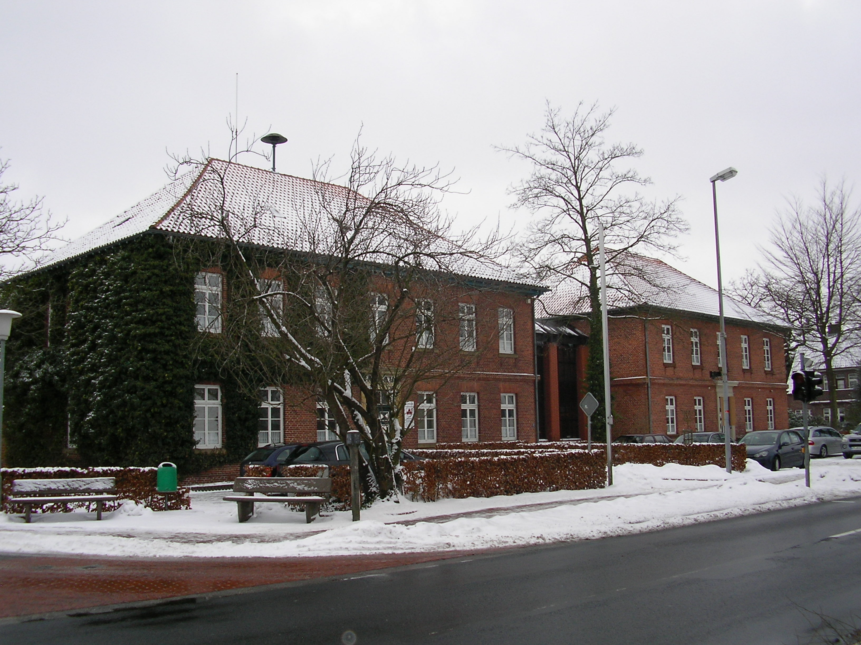 Friedeburg, Town Hall